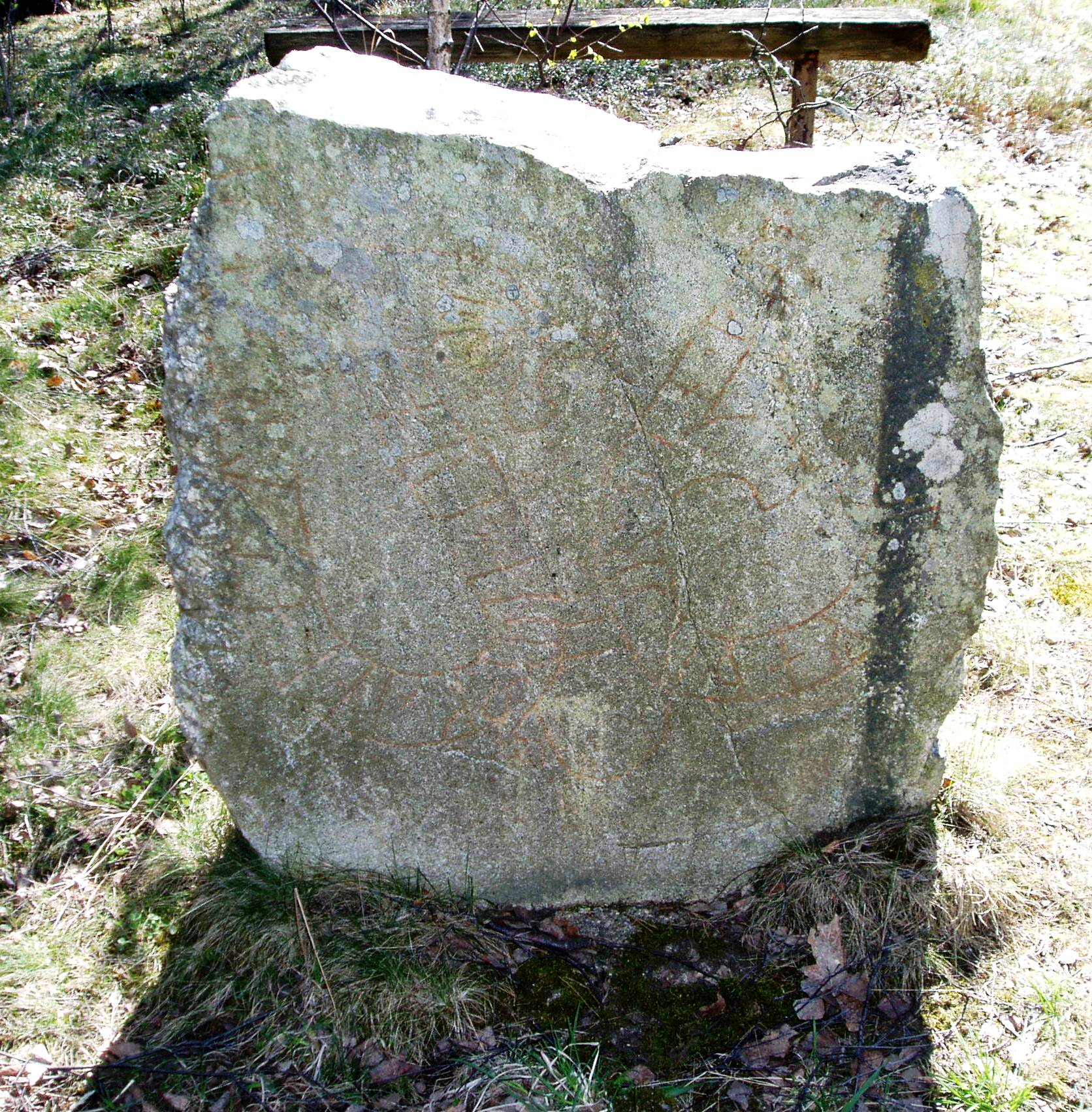 Rune stone, U 172, Lidingö municipality, Sweden